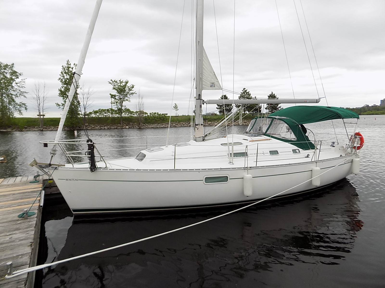 A Beneteau Oceanis 321 sailboat named Evasion.